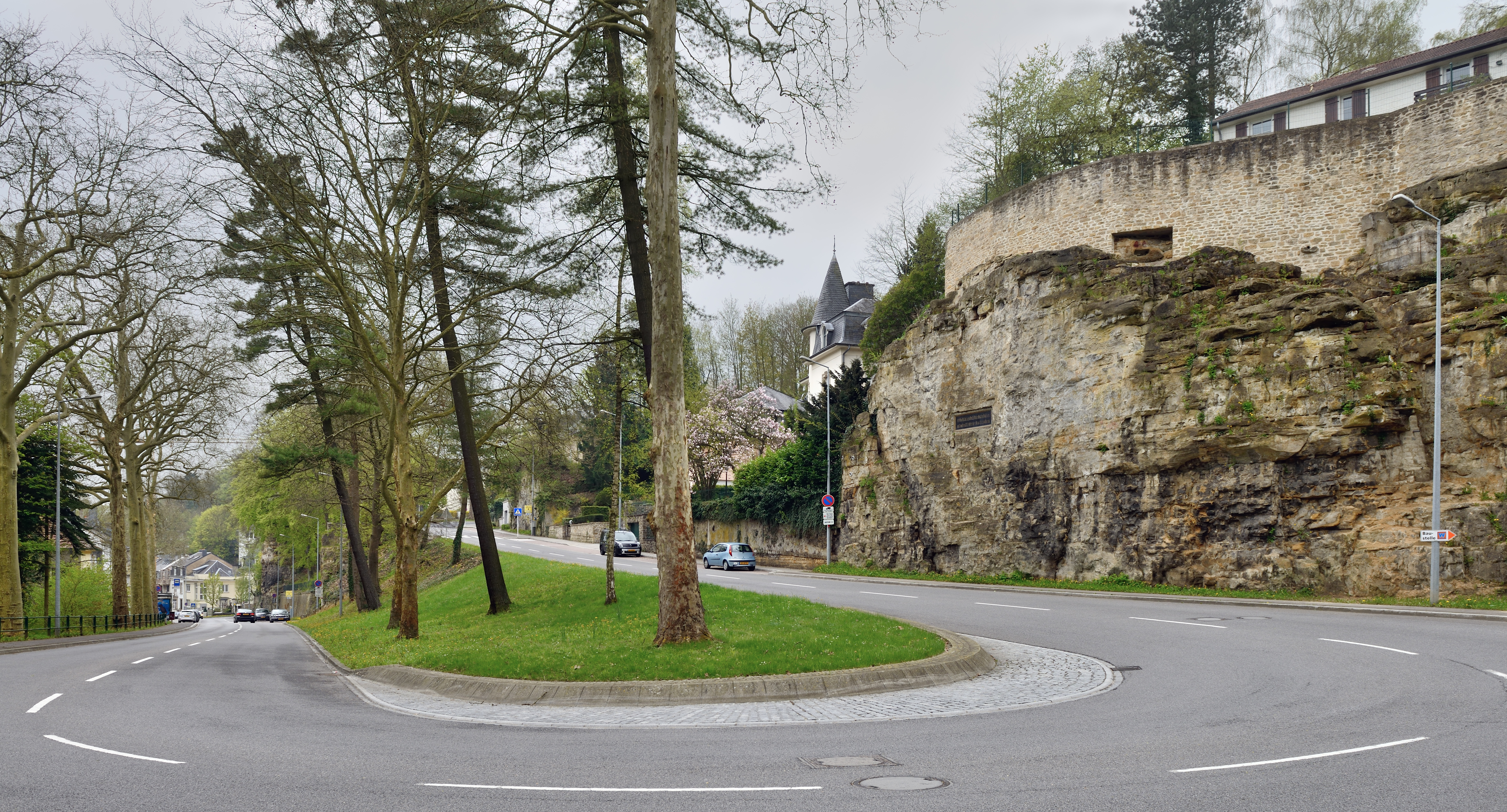 Luxembourg City: rue des Glacis. The chronogram on the plaque on the rock at right indicates the year 1850, the year of the road construction.